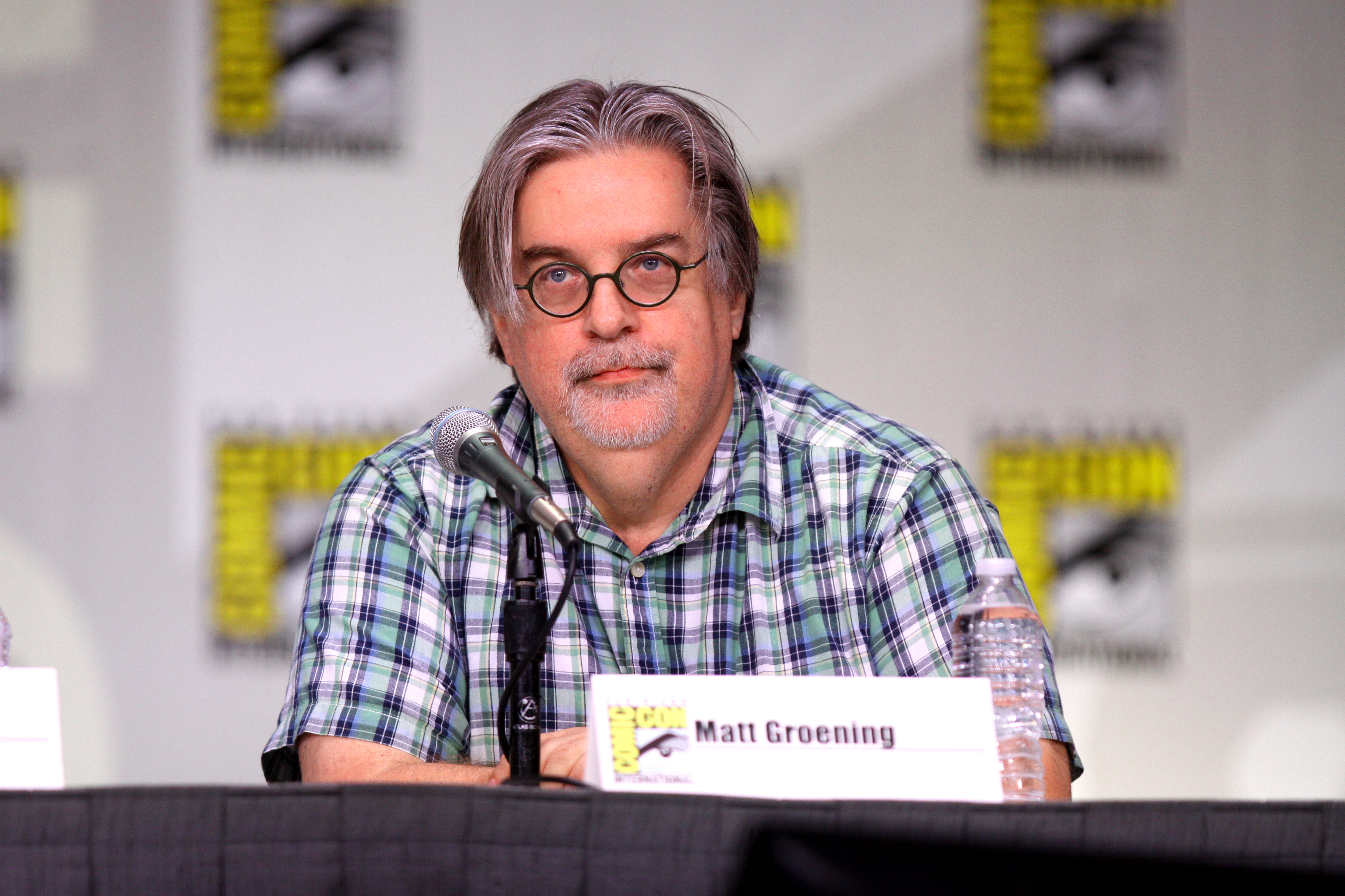 Matt Groening at the 2011 San Diego Comic-Con International in San Diego, California.